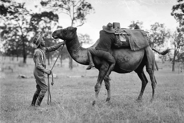 Army Camel Corp training at Menangle Park